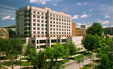 Picture of the Statler Hotel Friend